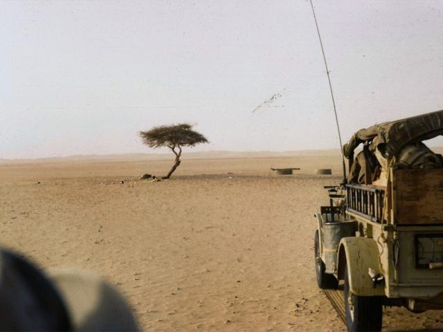 Arbre du Ténéré in 1961. The tree was destroyed in 1973 and has been replaced by a monument.